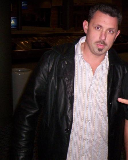 Picture of michael cole backstage with me (cropped)